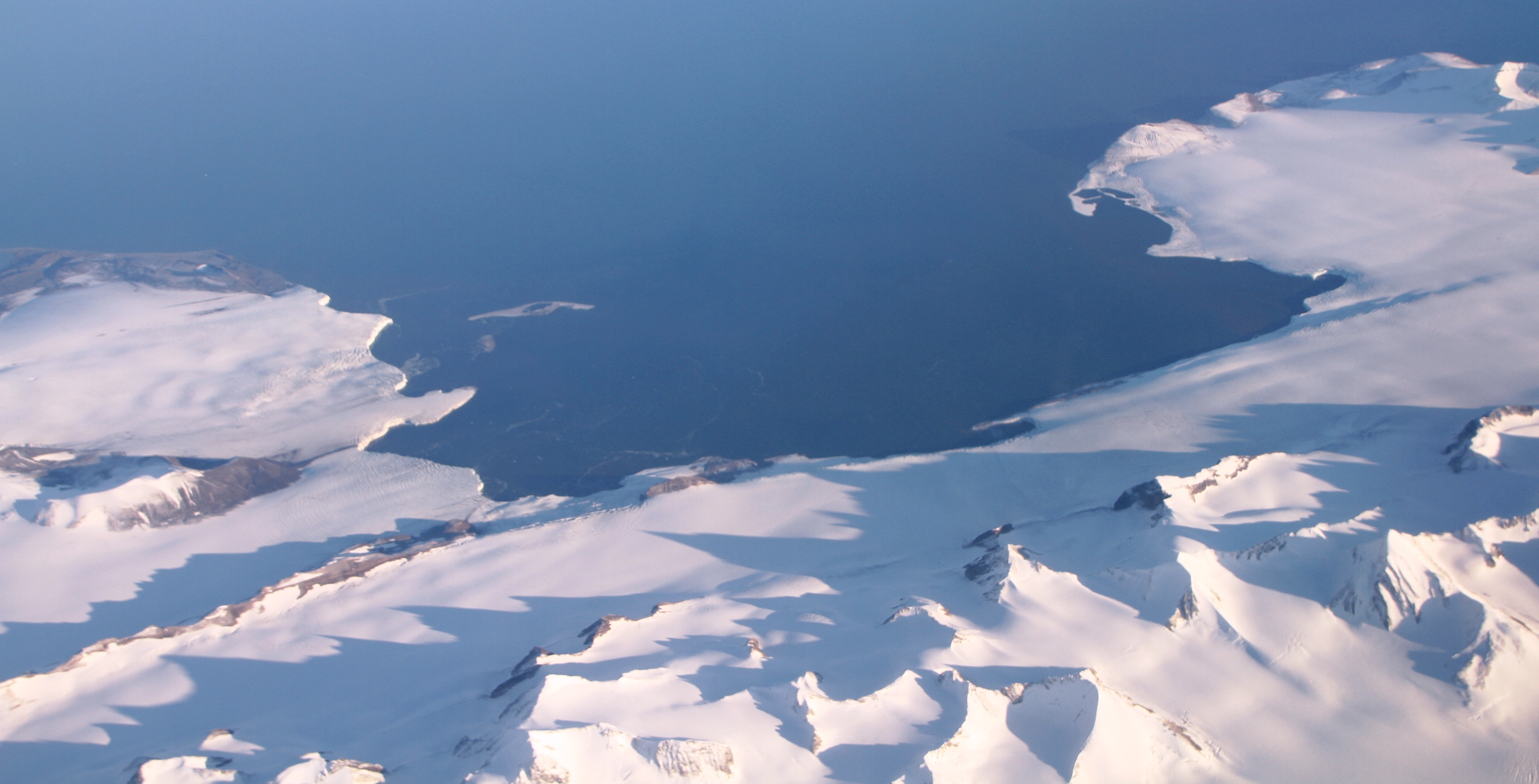 Aerial photo, from the west towards east, of the Sørkapp Land southernmost parts of Spitsbergen, Svalbard.